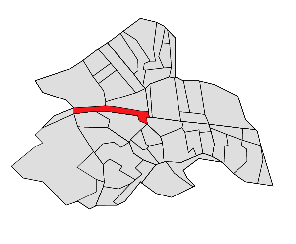 Location of the Spoorzone project in Gouda.